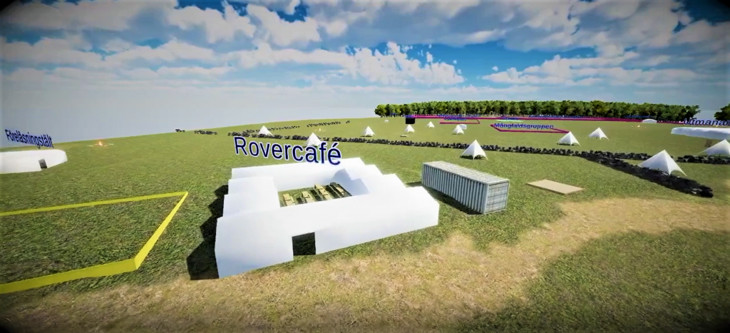 The UtRoVux hub at Jamboree17